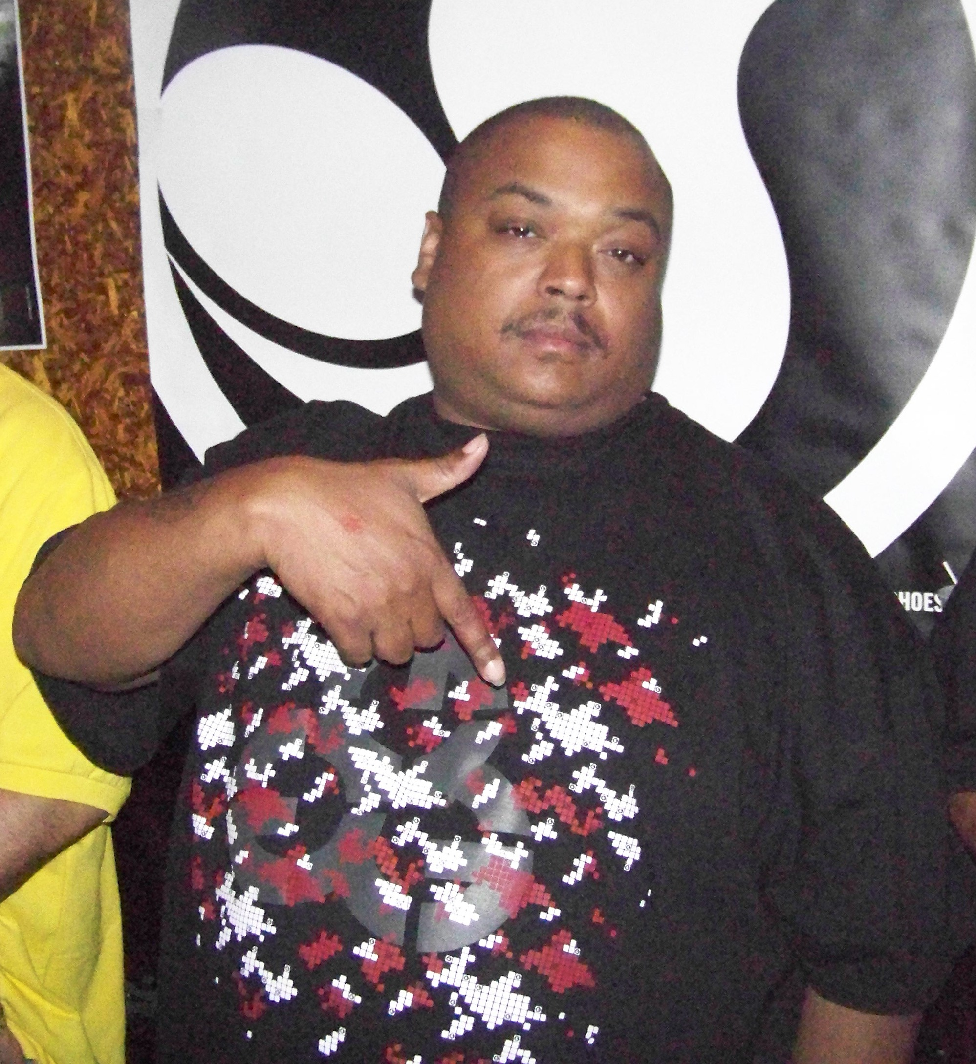 The USA rapper Bizarre, from Dirty Dozen